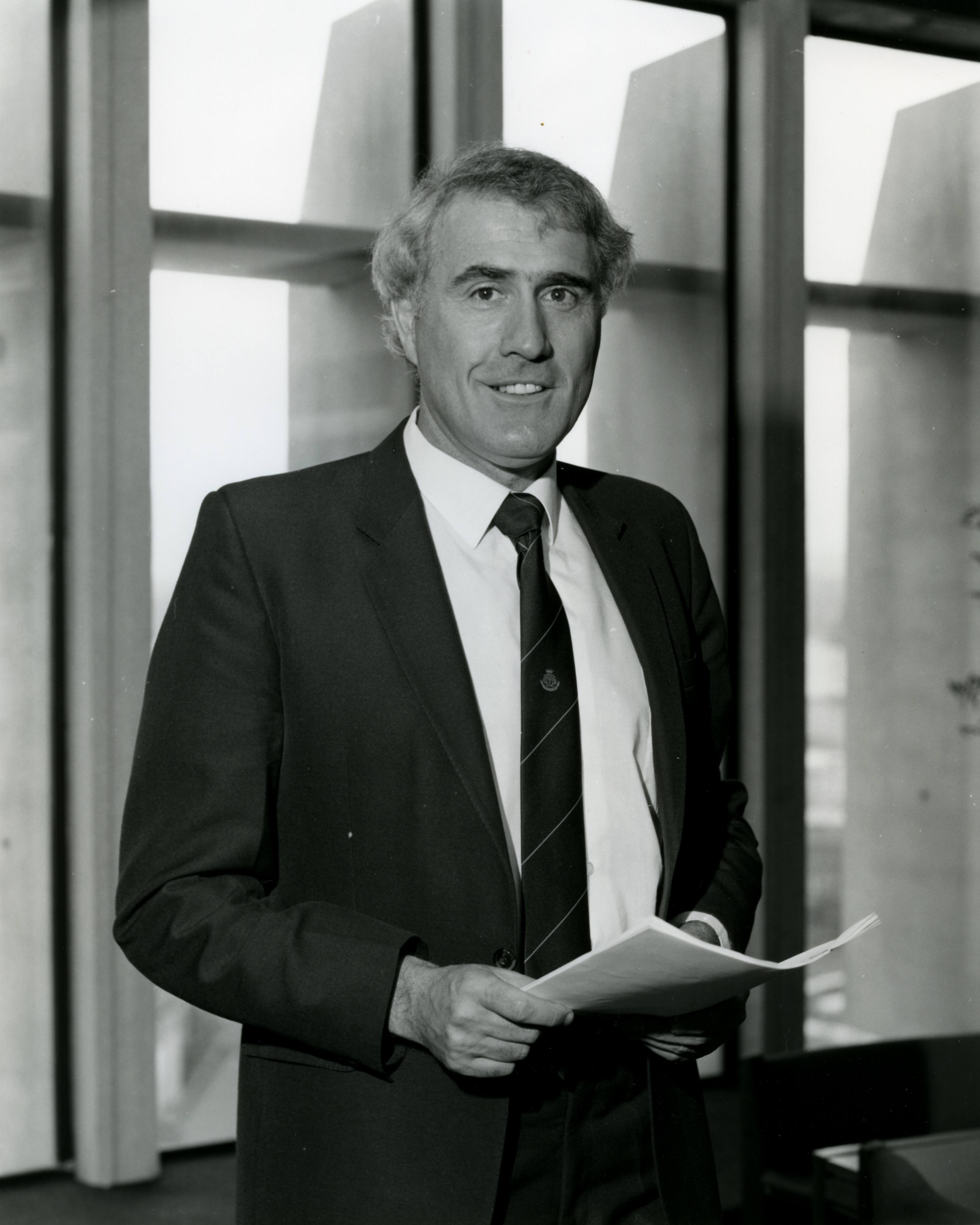 Picture of Geoffrey Palmer taken whilst he was the Minister in charge of the Government Printing Office in 1986.